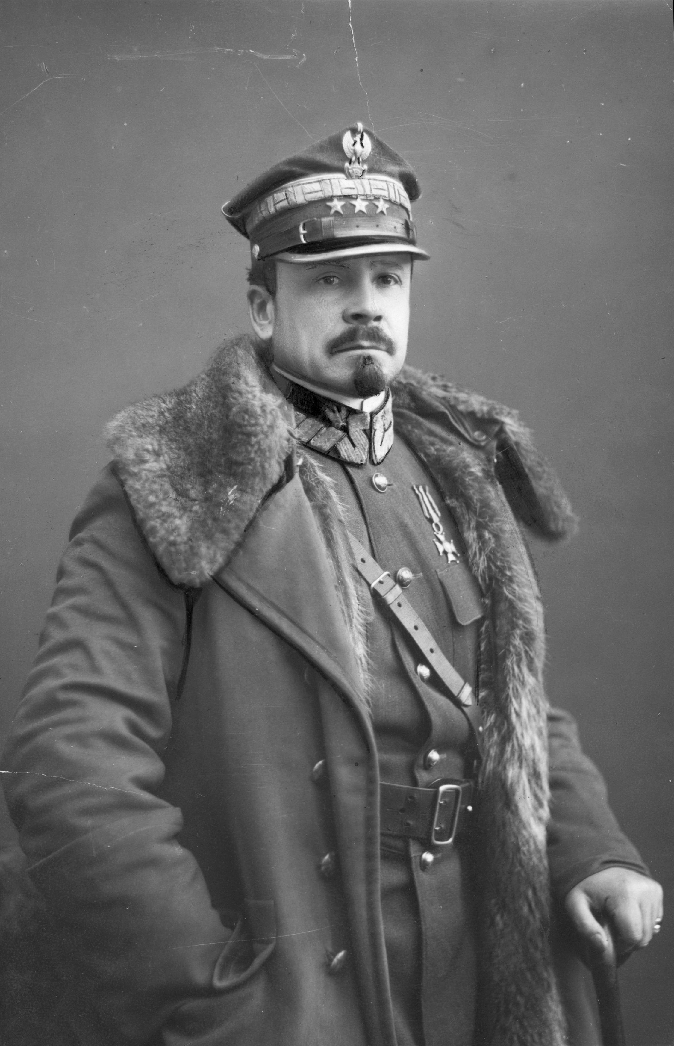 Józef Haller von Hallenburg (1873–1960), lieutenant general of the Polish Army, a legionary in the Polish Legions, the Scout instructor, the president of the Polish Scouting and Guiding Association (ZHP), and a political and social activist.